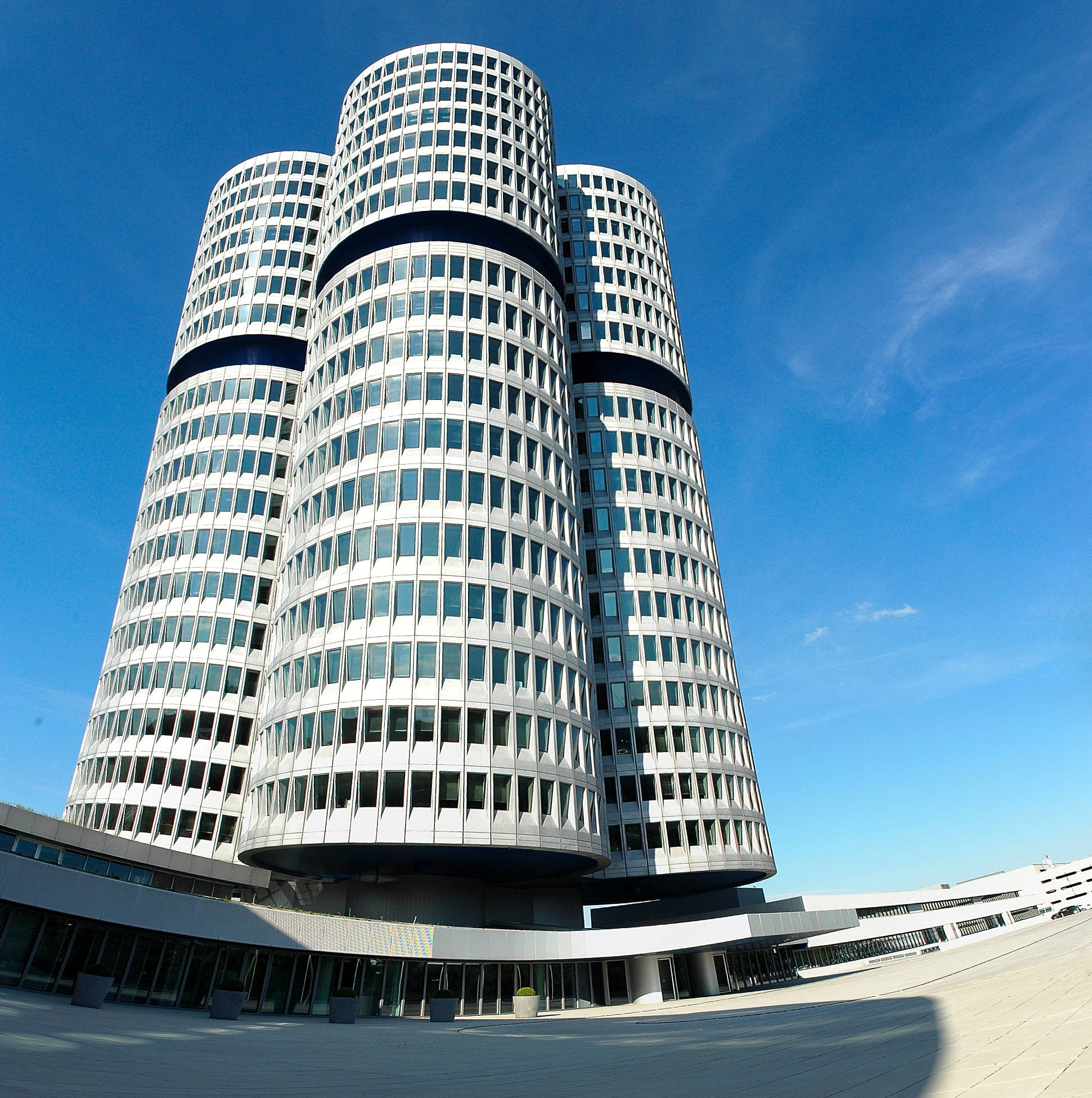 BMW Tower in Munich